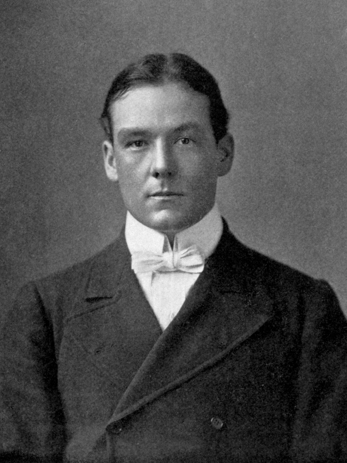 R H Davis